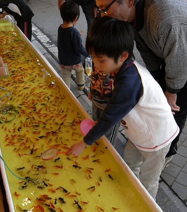 Goldfish scooping